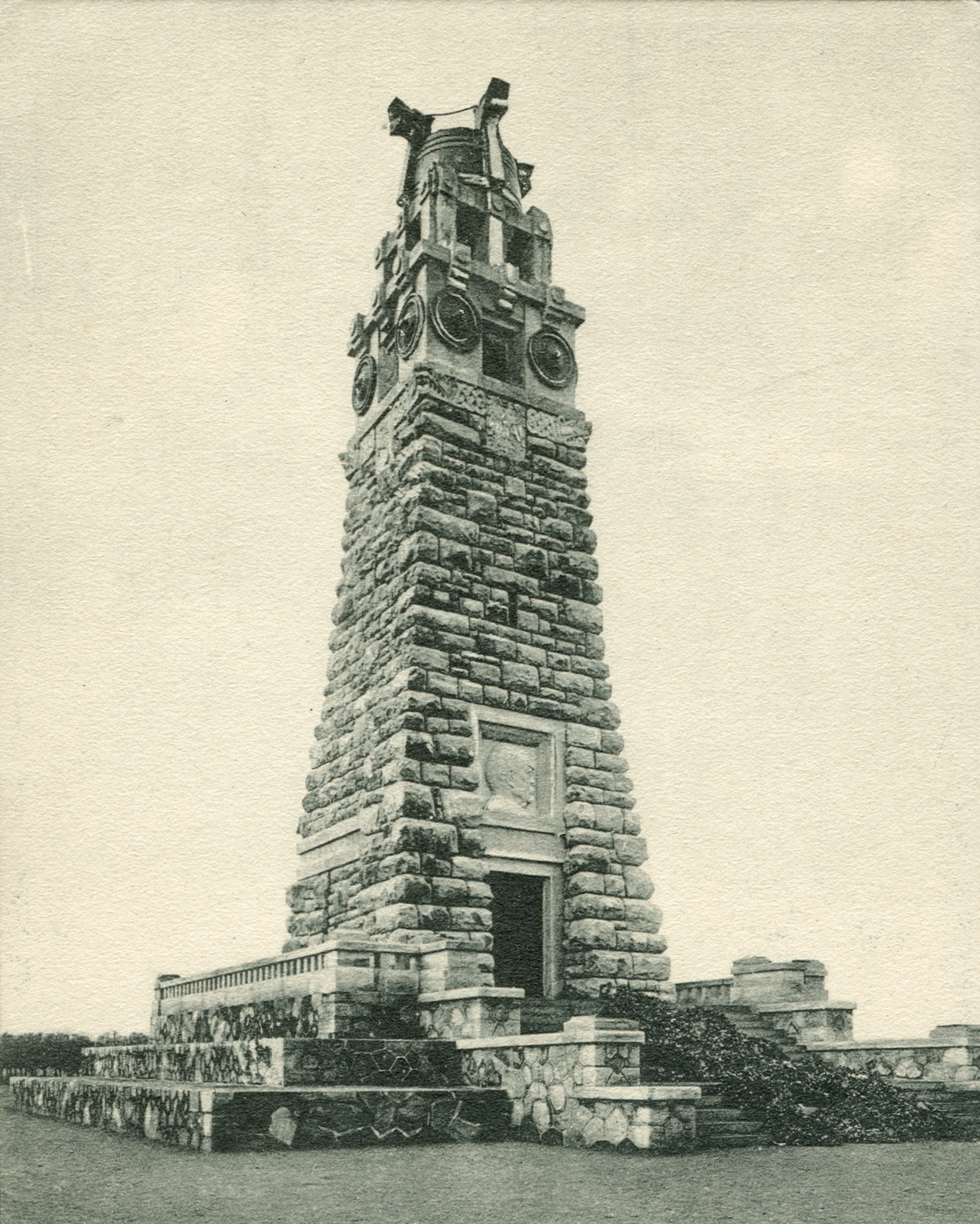 Bismarck Tower that stood in Hanover, Germany from 1904 to 1935. Cropped version of the file